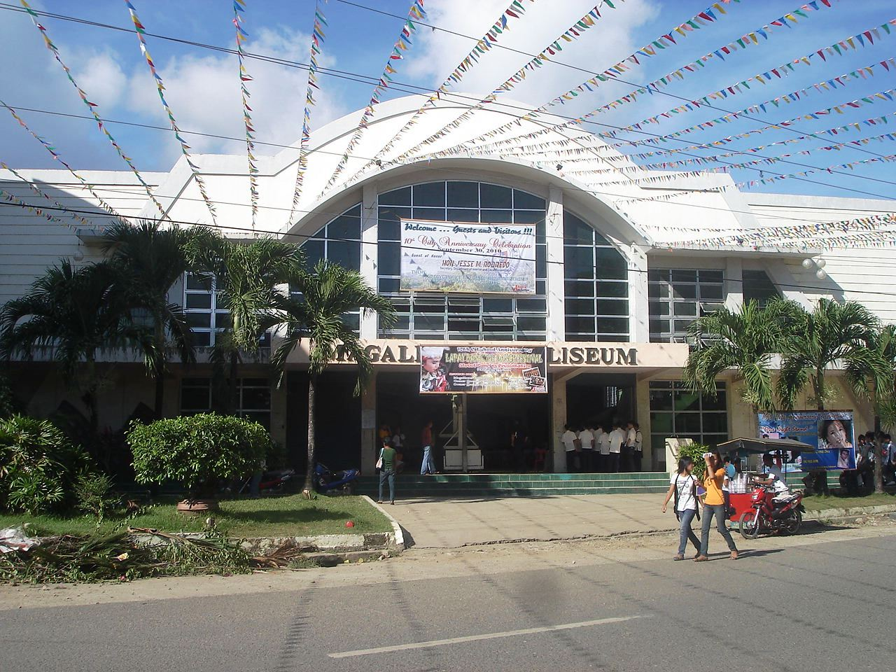 Sport venue in Masbate City